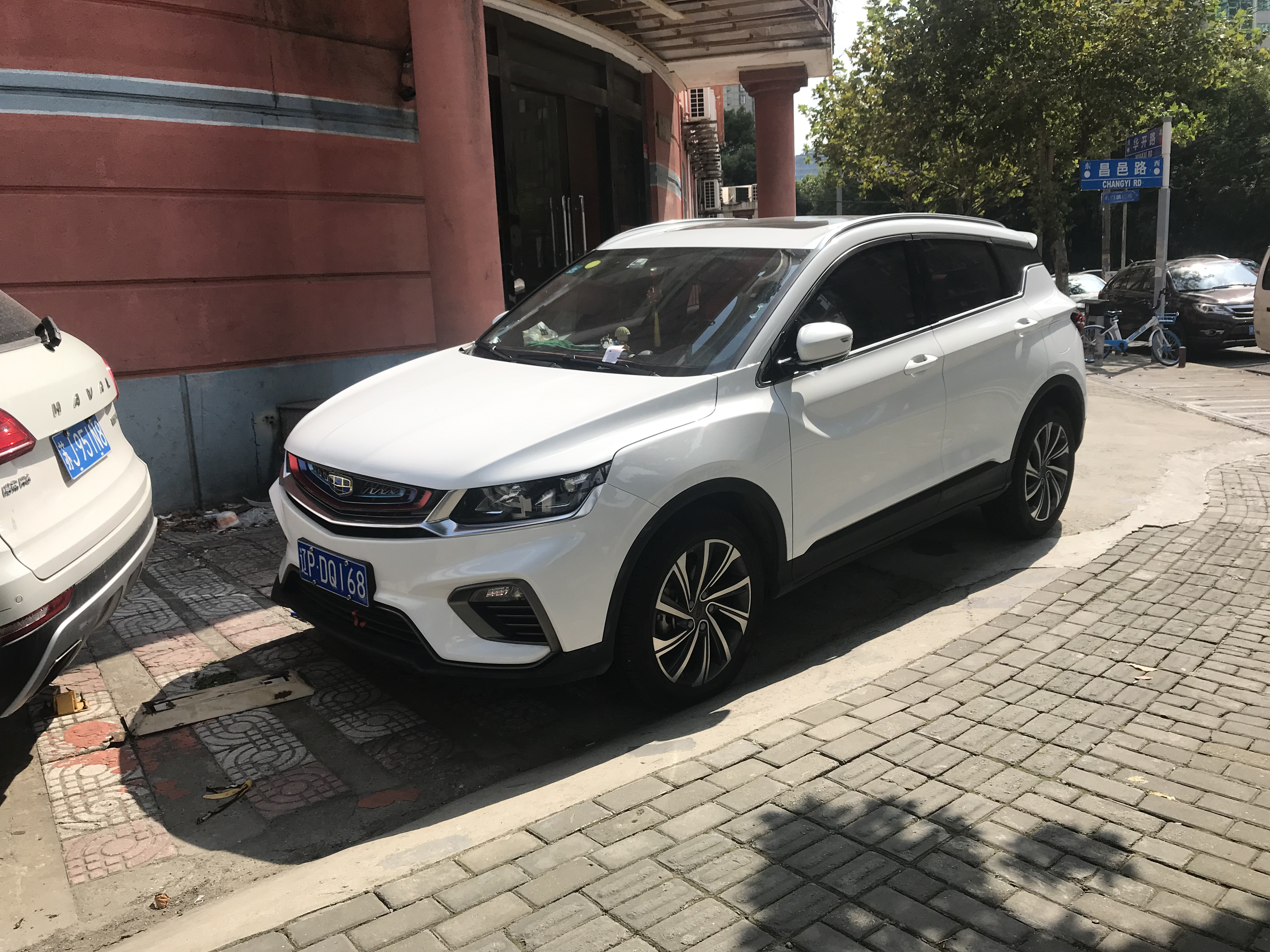 Geely Binyue front